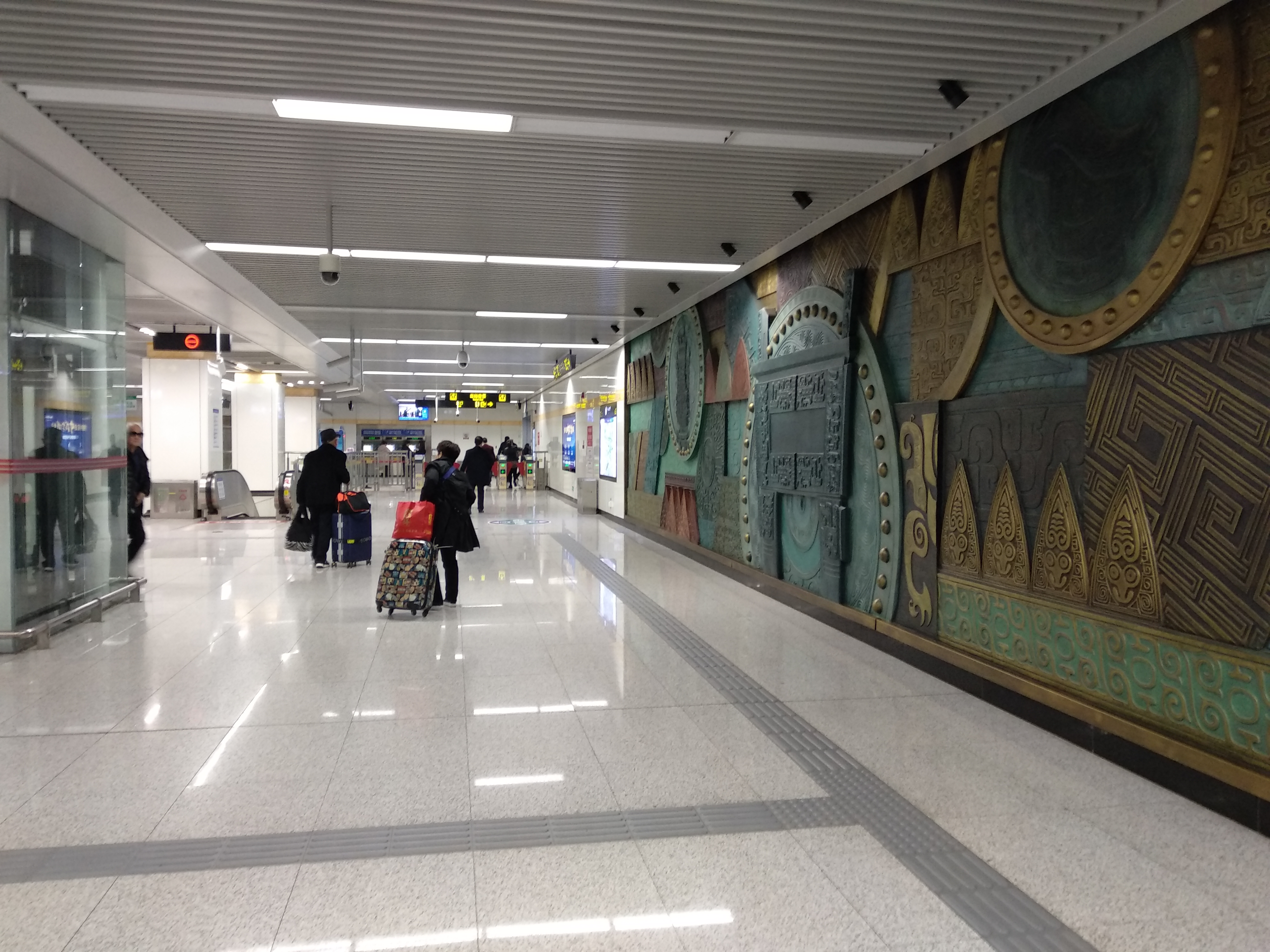 It's a intermediate station on Line 2, Zhengzhou Metro. An artwork reflecting Zhengzhou's Erligang Culture can be seen.